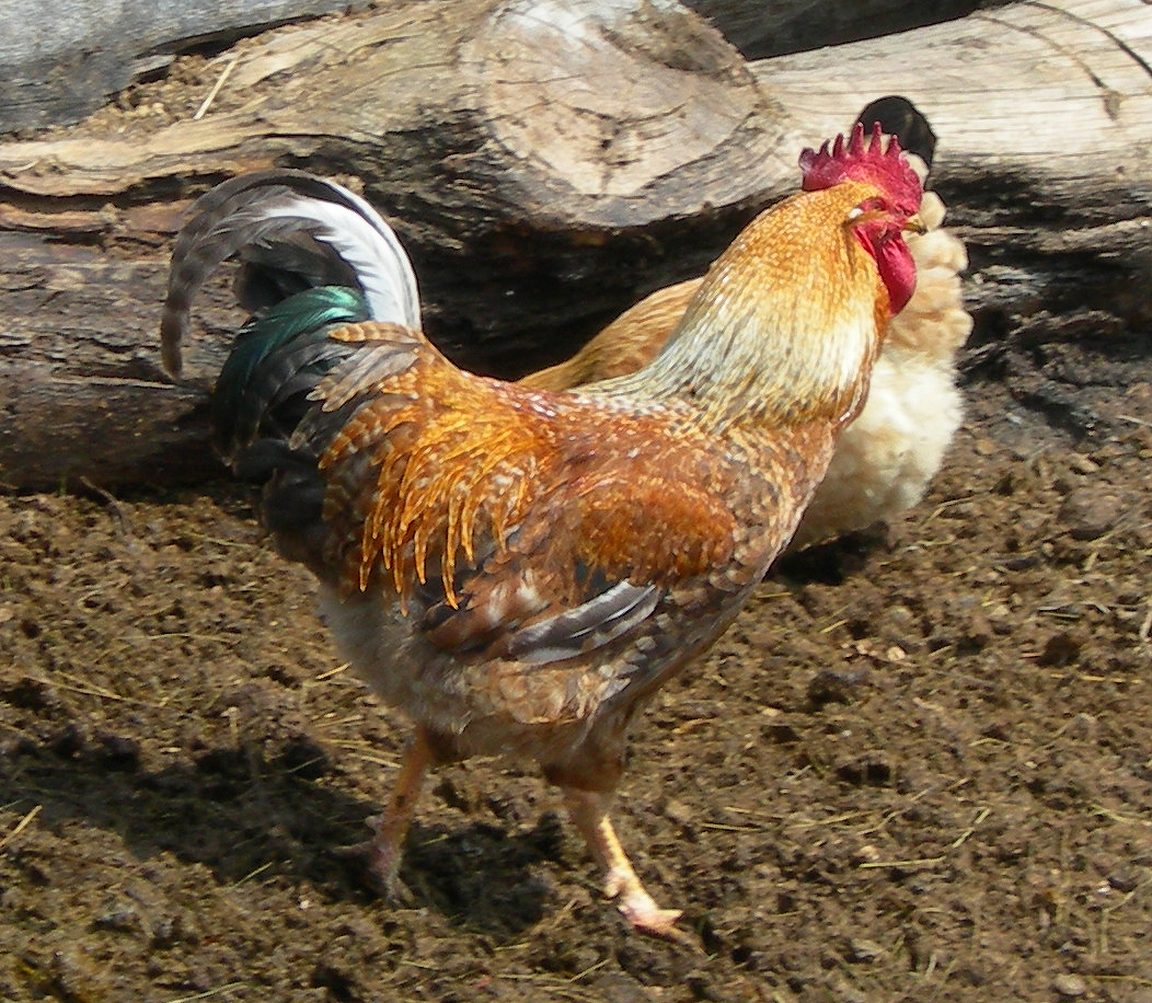 A rooster on free poultry breeding